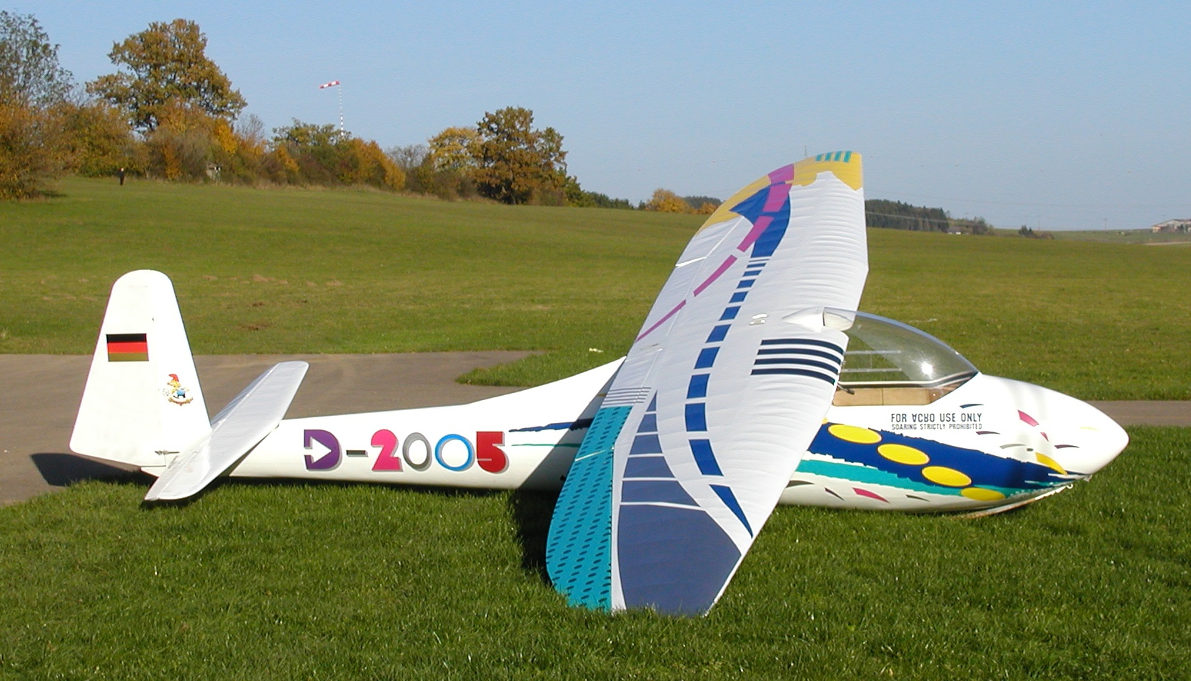 Lo-100, glider-airplane for acrobatic use. photo by Karle3, 2004-10.